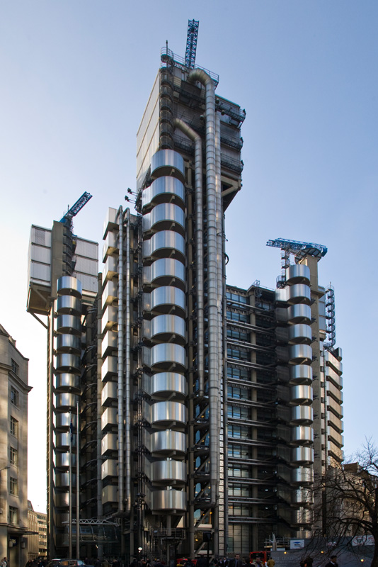 Lloyd's building